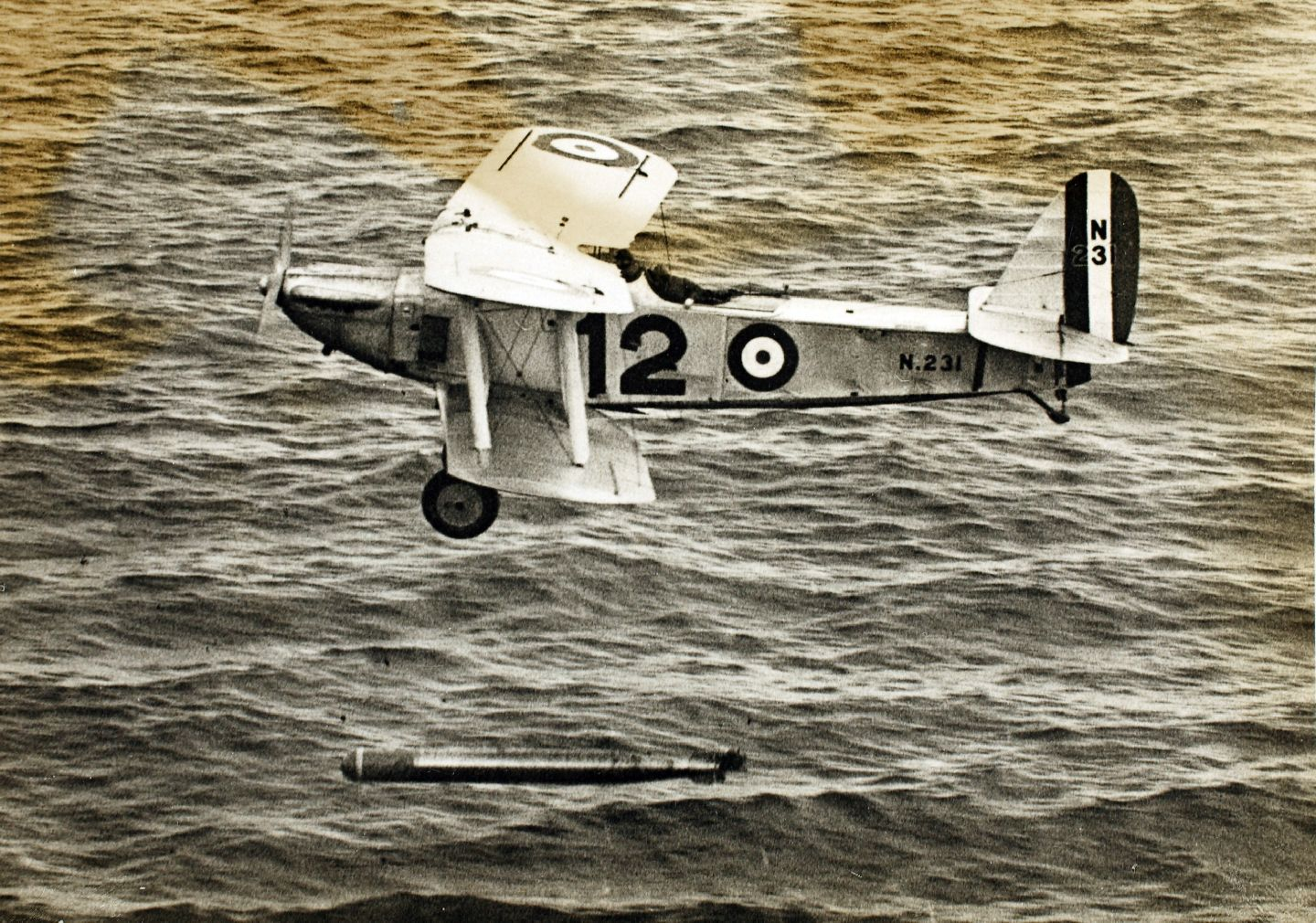 Blackburn Ripon of RAF.